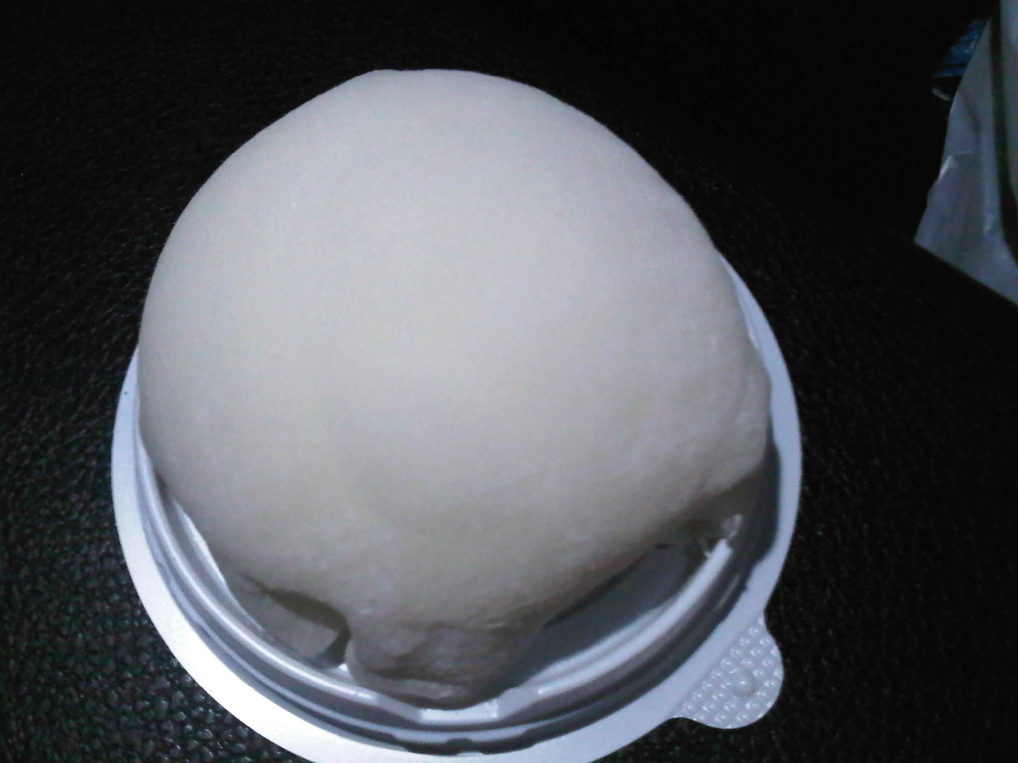 Snow Strawberry(YUKIICHIGO)